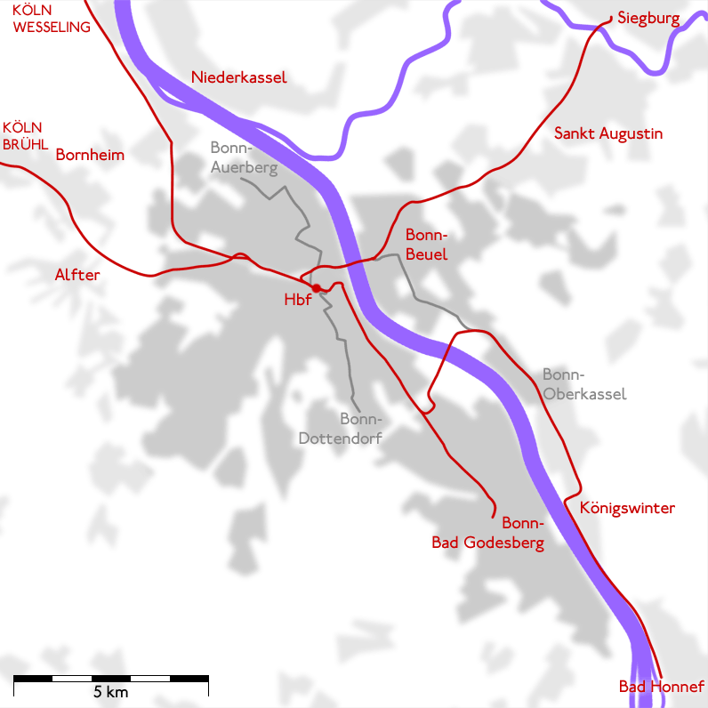 Railway network of the light railway (urban railway) Bonn – light rail sections are marked red, tram sections grey.